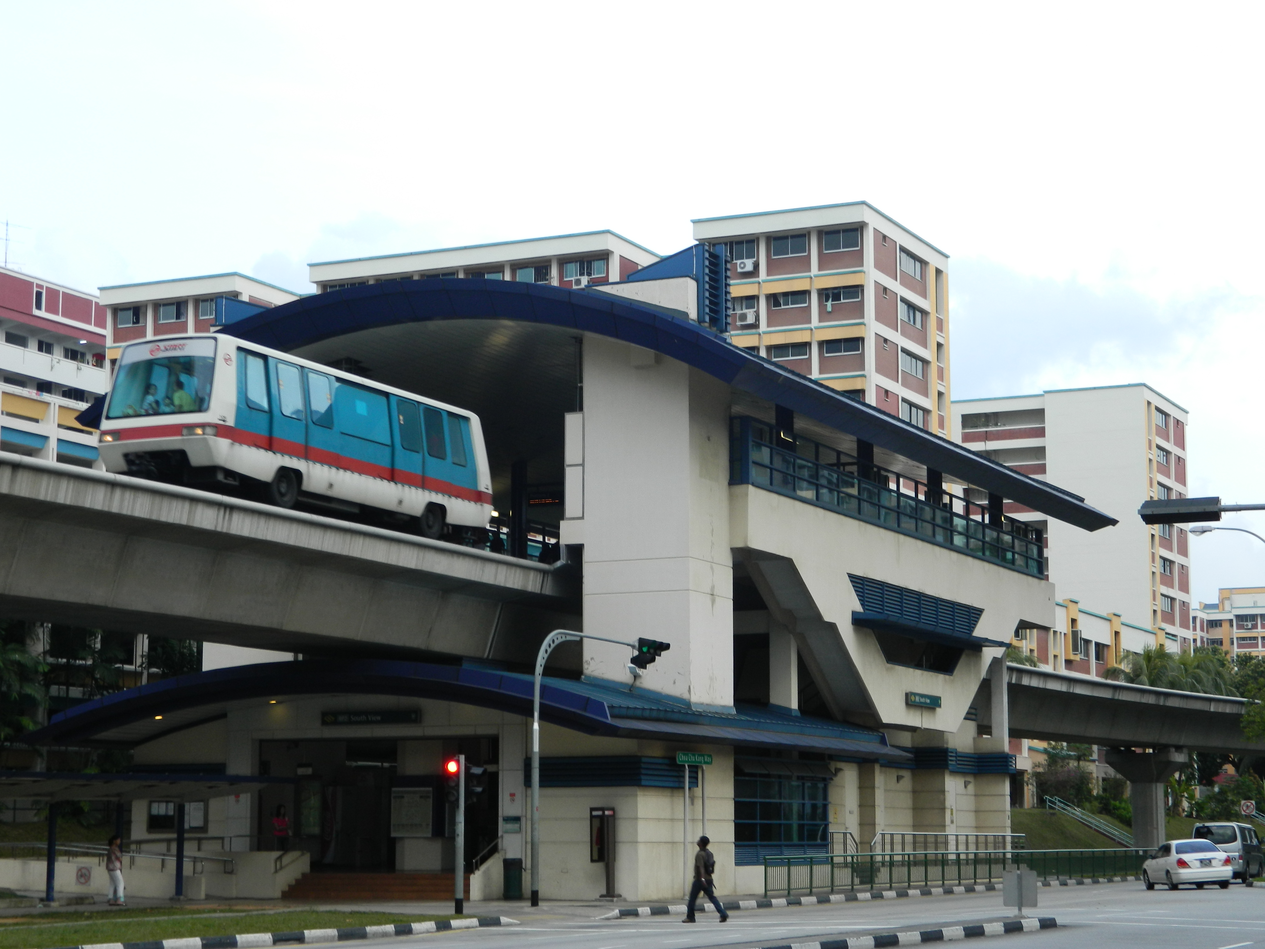 A Bombardier CX-100 train leaving South View LRT Station, Singapore.